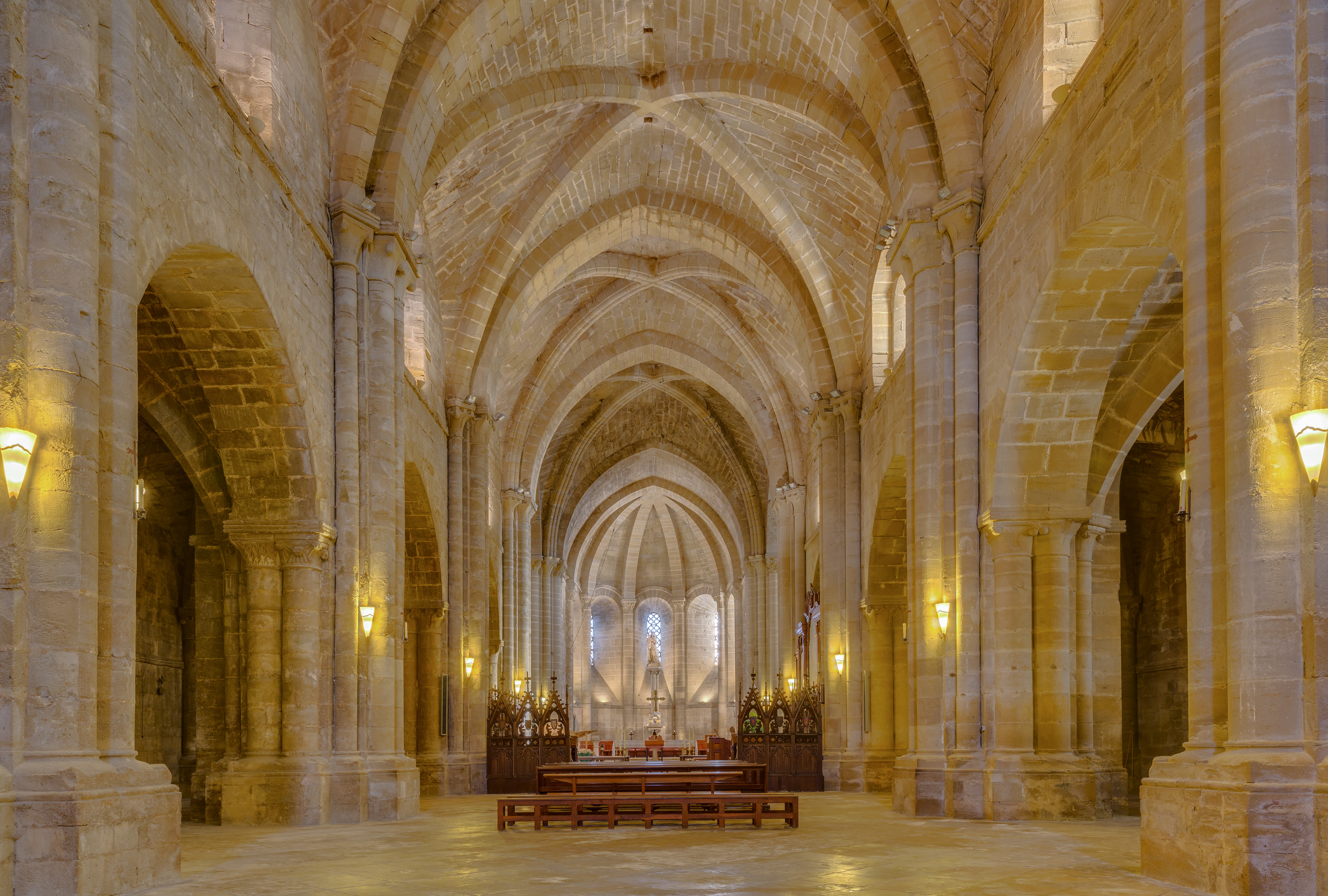 Main nave of the abbey of Santa María la Real de la Oliva, a still active Cistercian monastery located in Carcastillo, Navarre, Spain. The abbey was founded in 1150 when the king, García Ramírez of Navarre, died. The temple is inspired in the french abbeys of Morimond and Escaladieu.